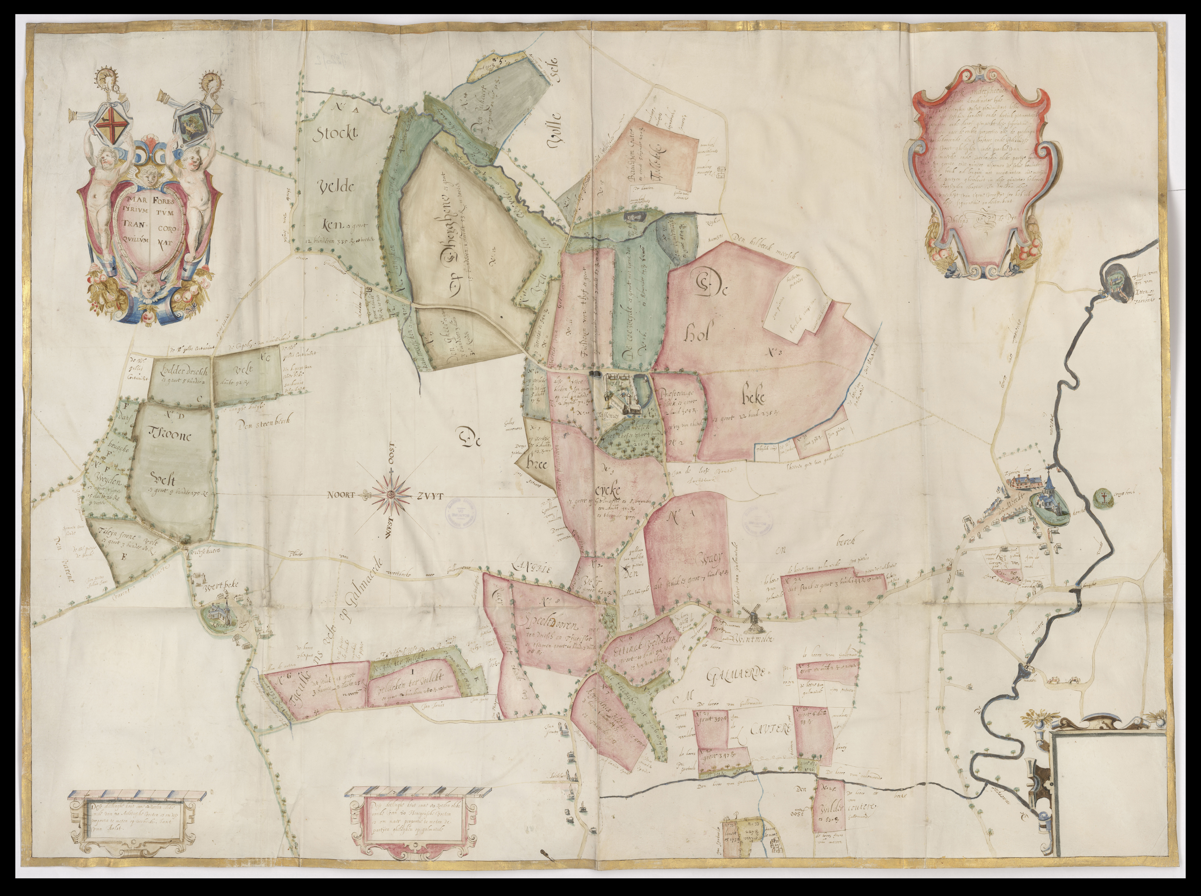 1 - Left